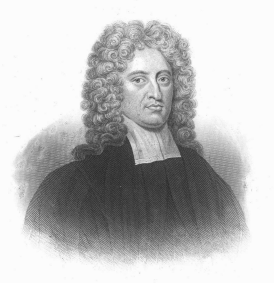 Image of John Howe